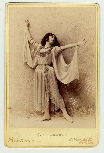 Portrait of Eva Tanguay